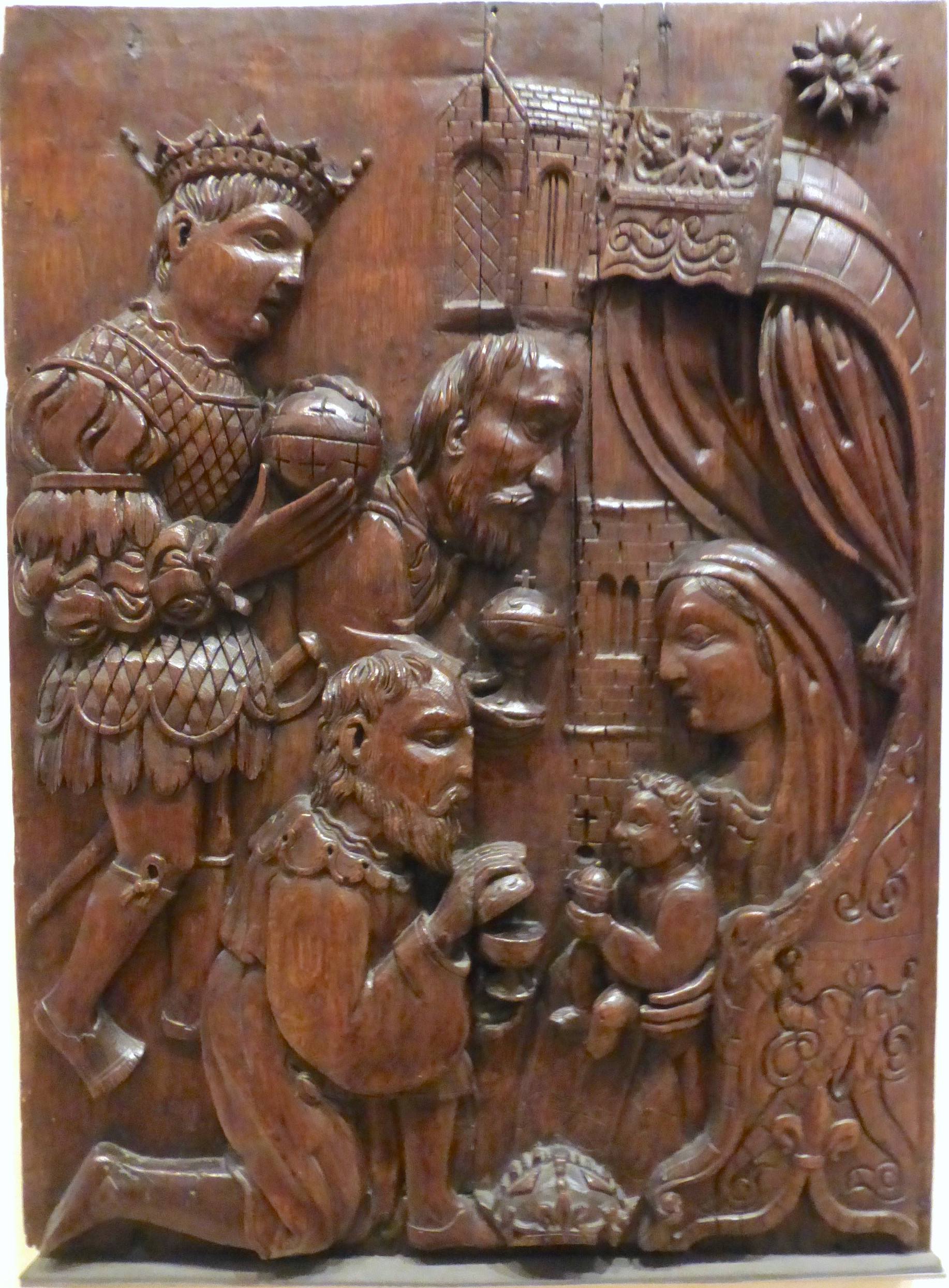 Mid-16thC oak panel carving from a house in the Overgate, Dundee. Part of the National Museum of Scotland's collection.